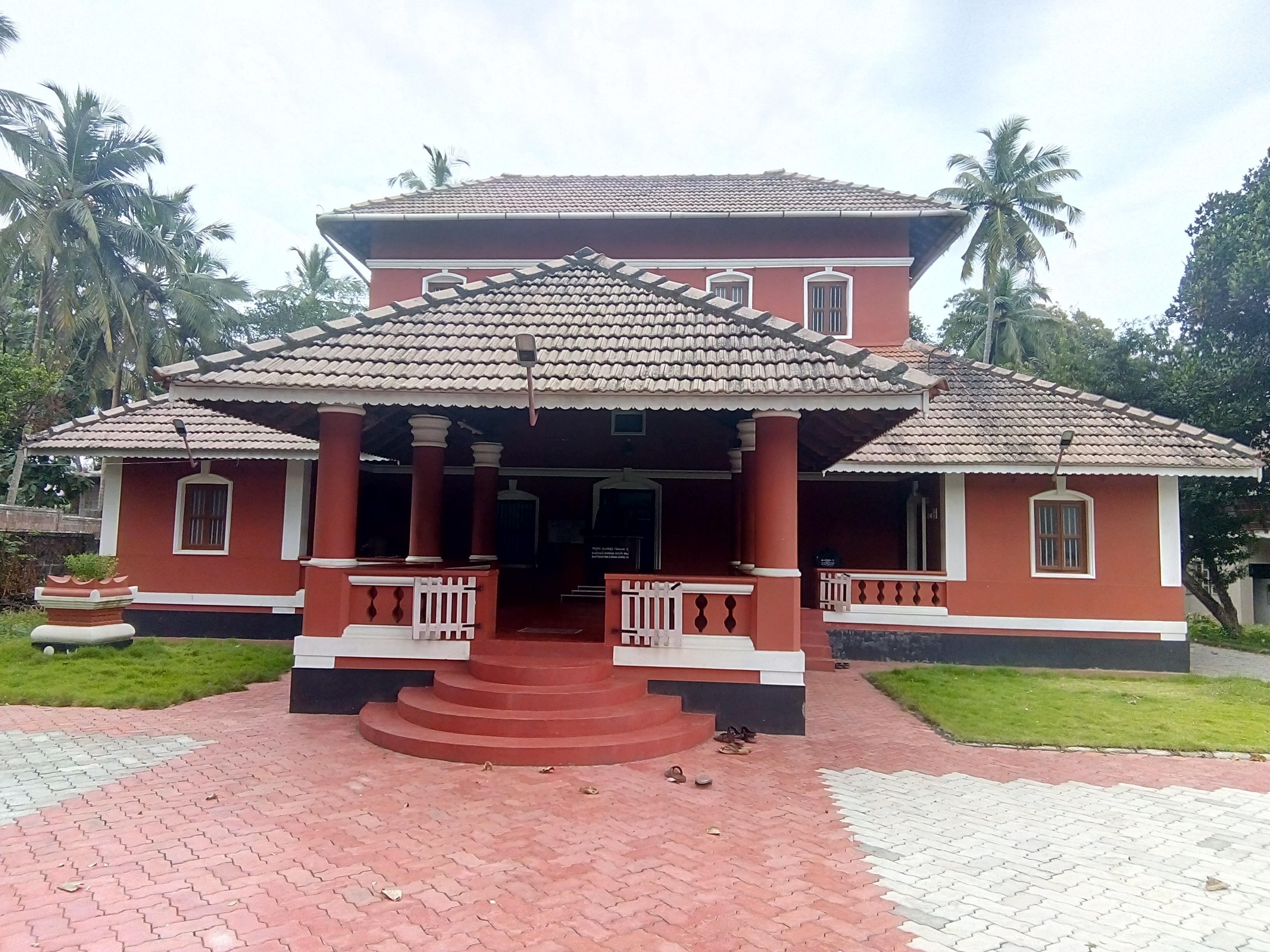 Govinda Pai house